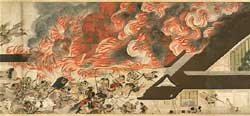 Night Attack on the Sanjo Palace(detail) Japan, Kamakura period, second half of the 13th Century Handscroll